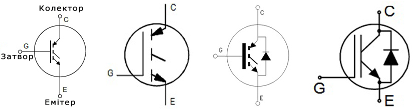 IGBT transistor